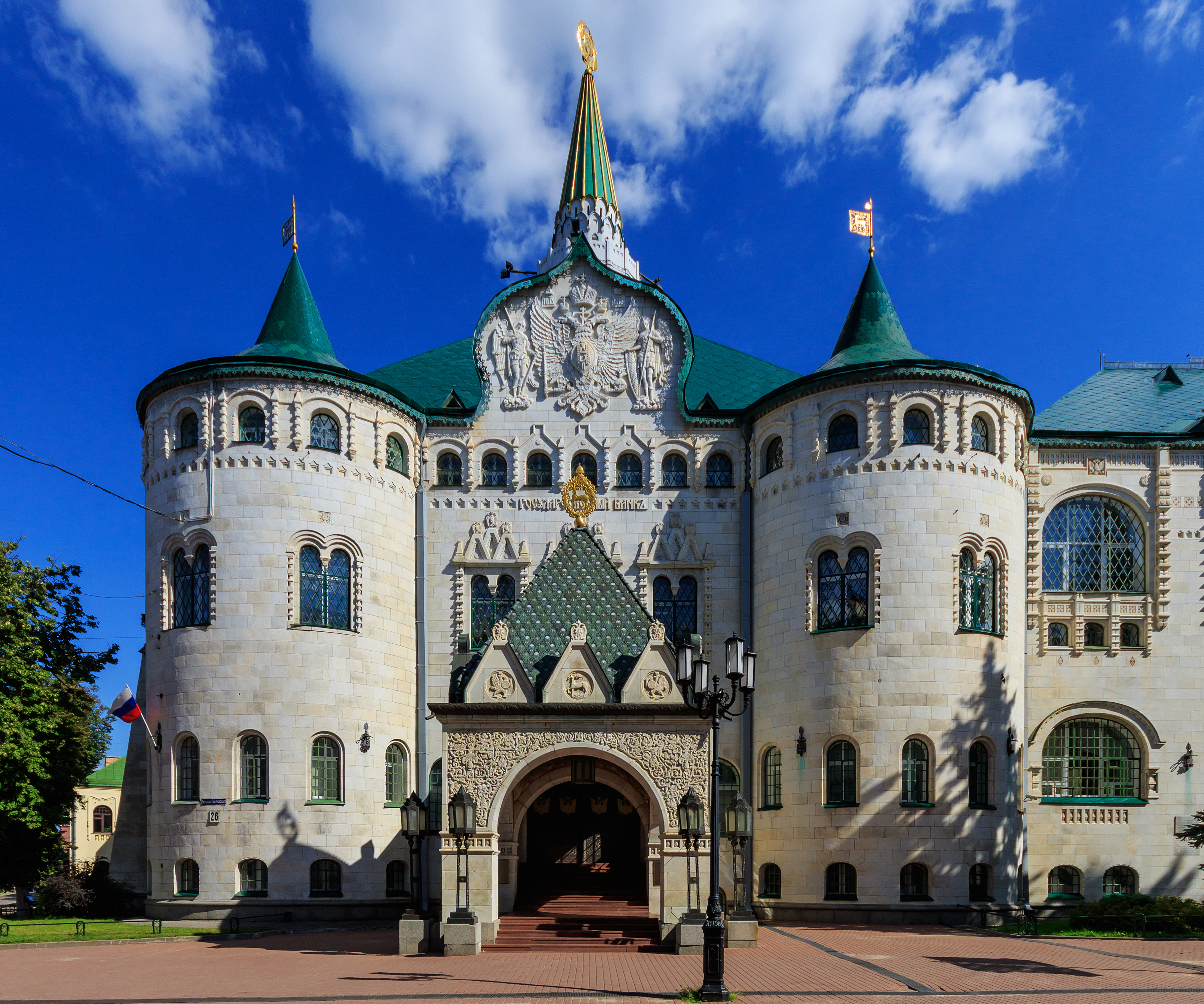 Building at 26, Bolshaya Pokrovskaya Street (State Bank Building) in Nizhny Novgorod, Russia